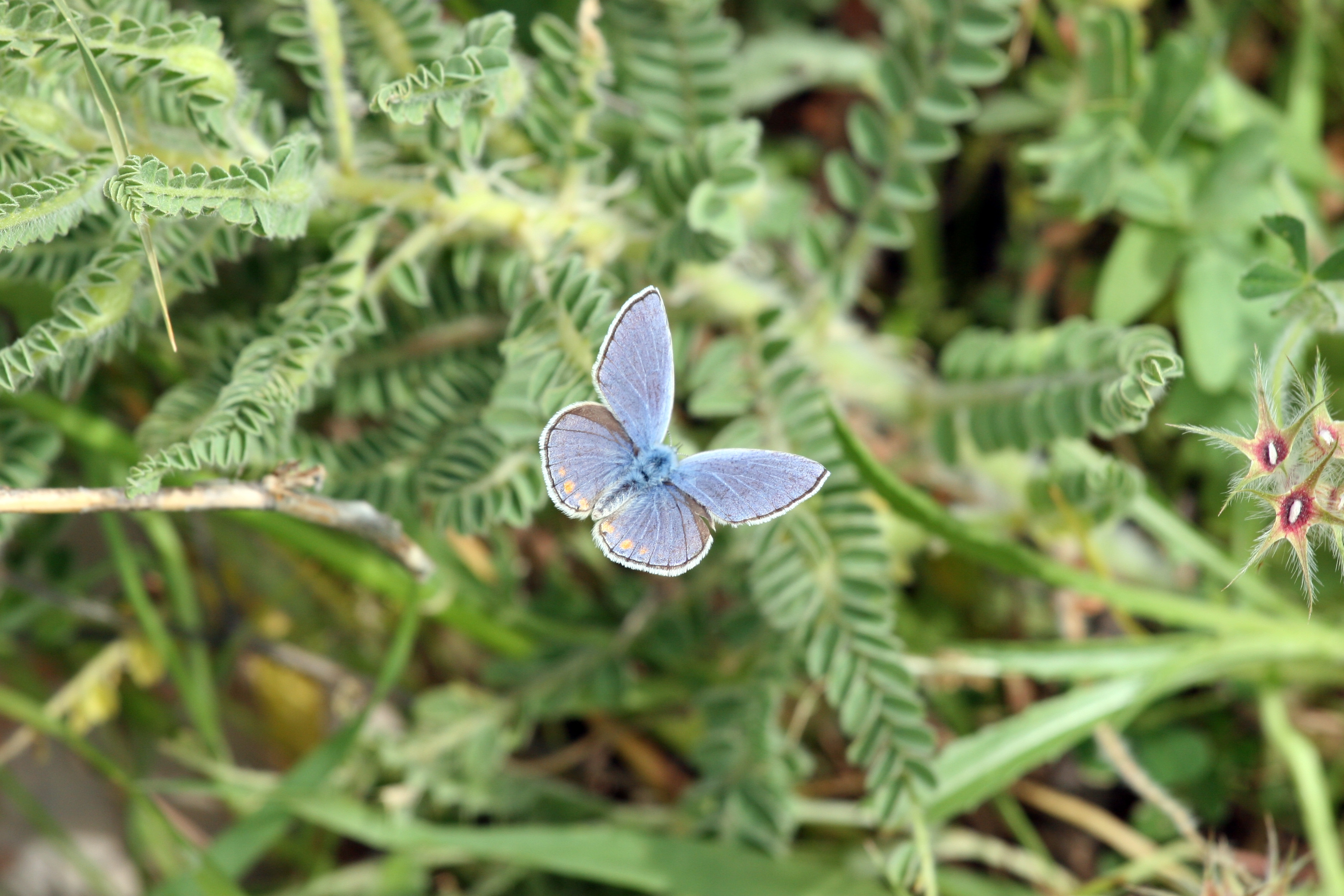 זכר כחליל קליאופטרה Plebejus pylaon cleopatra male